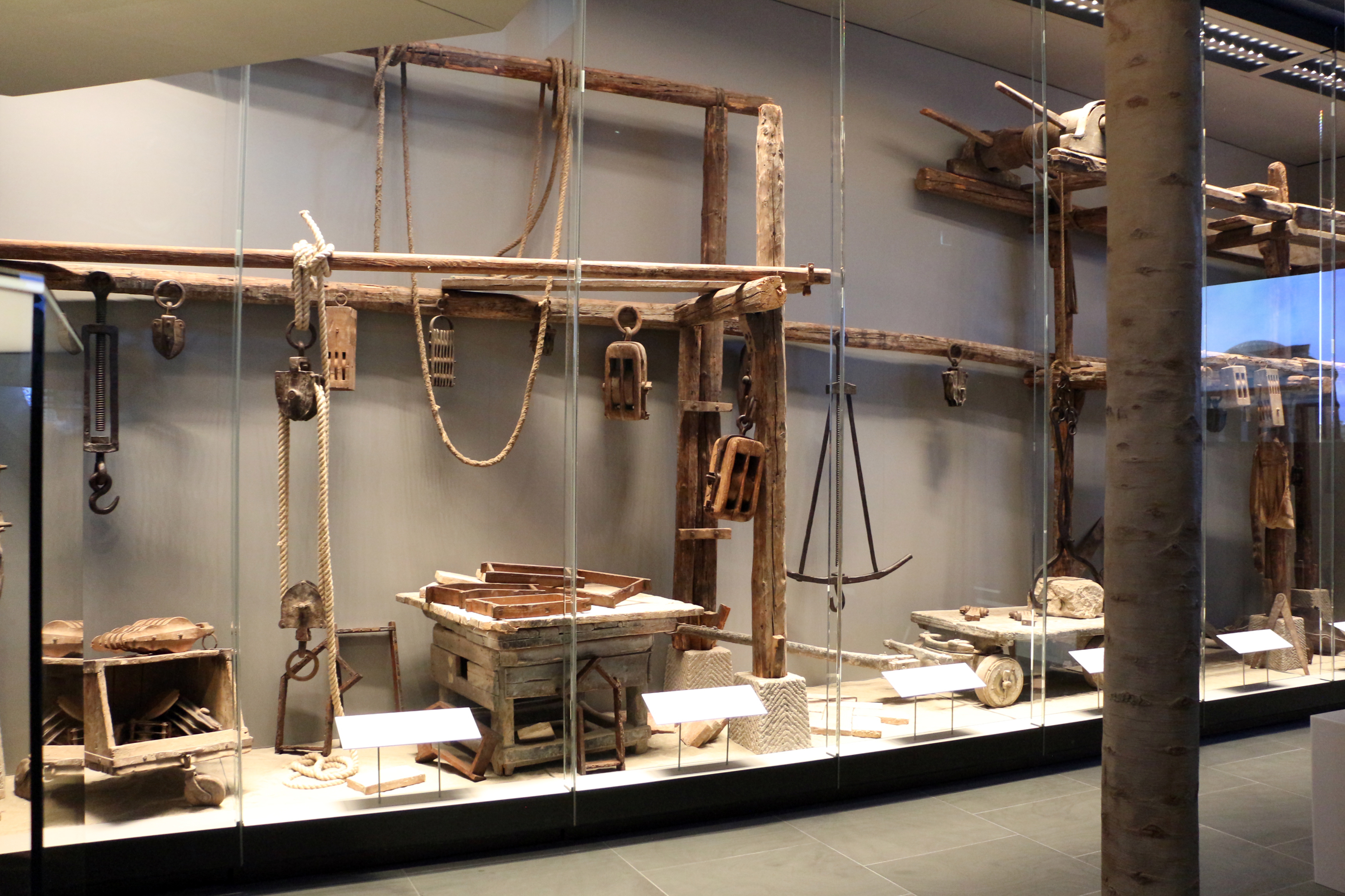 Museo dell'Opera del Duomo (Florence)